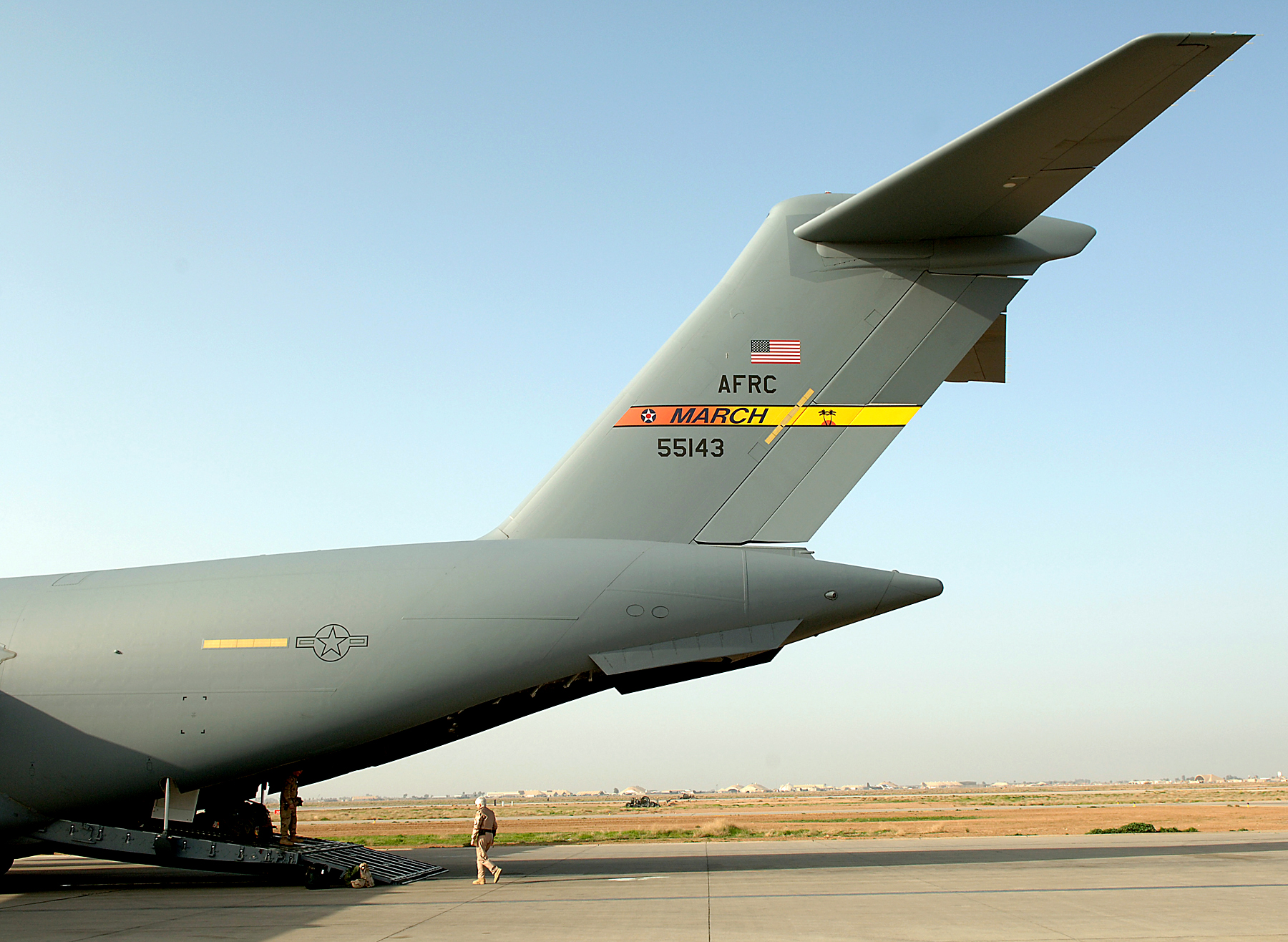 Flight surgeon Lt. Col. Nina Gilbergat is dwarfed by a C-17 Globemaster III as she prepares to walk up the ramp door before an aeromedical evacuation mission from Balad Air Base, Iraq to Landstuhl Regional Medical Center in Germany. Colonel Gilbergat is assigned to the 332nd Contingency Aeromedical Staging Flight.The Globemaster is from March Air Reserve Base, Calif. (U.S. Air Force photo/Airman 1st Class Nathan Doza)